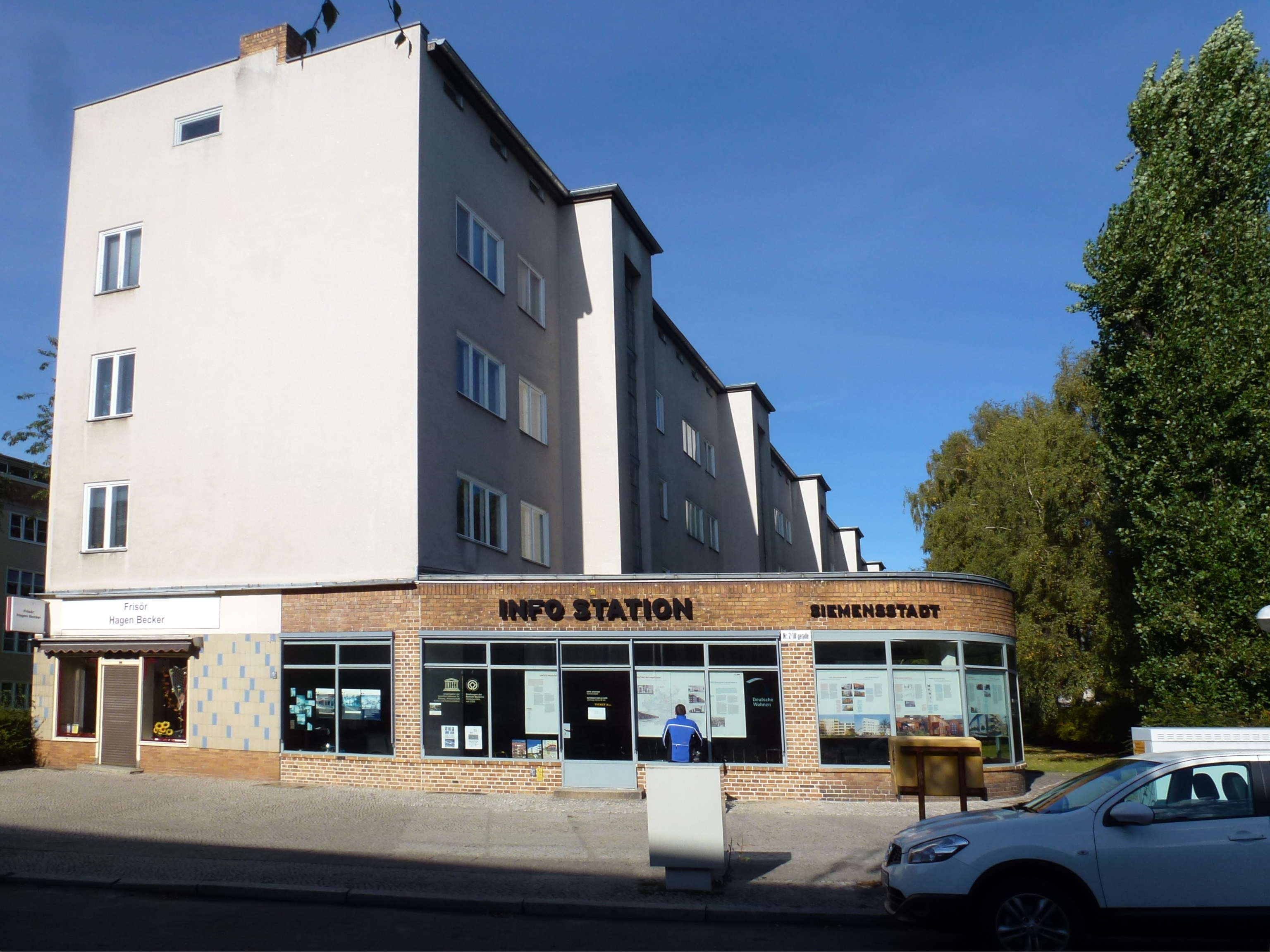 Berlin-Charlottenburg-Nord Goebelstraße